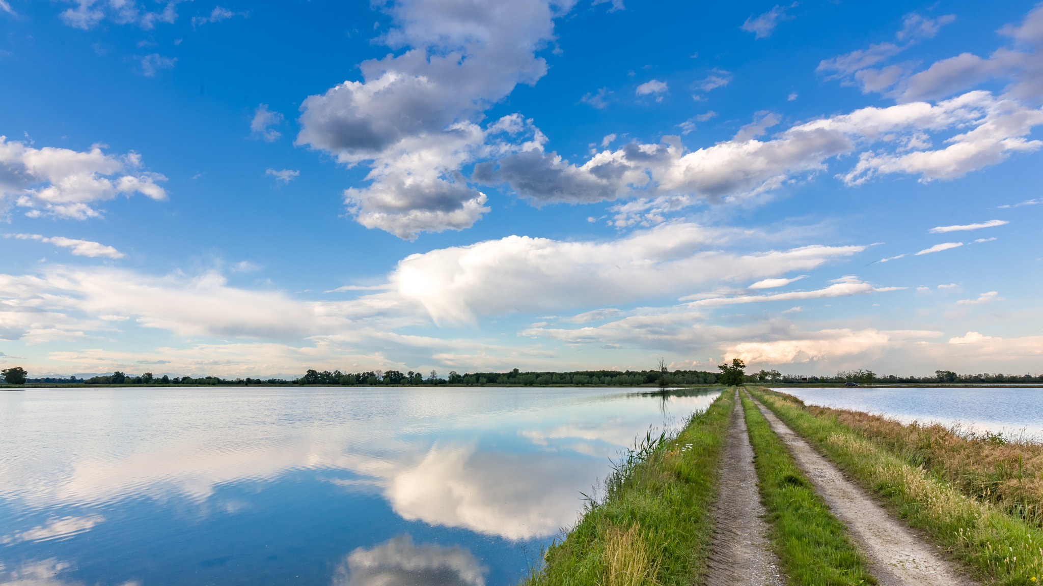 500px provided description: Risaie piemontesi al tramonto. Rise filelds in Piemonte [#landscape ,#reflections ,#sunset ,#water ,#italy ,#path ,#grass ,#landscapes ,#countryside ,#tramonto ,#piemonte ,#countriside ,#rise fields]